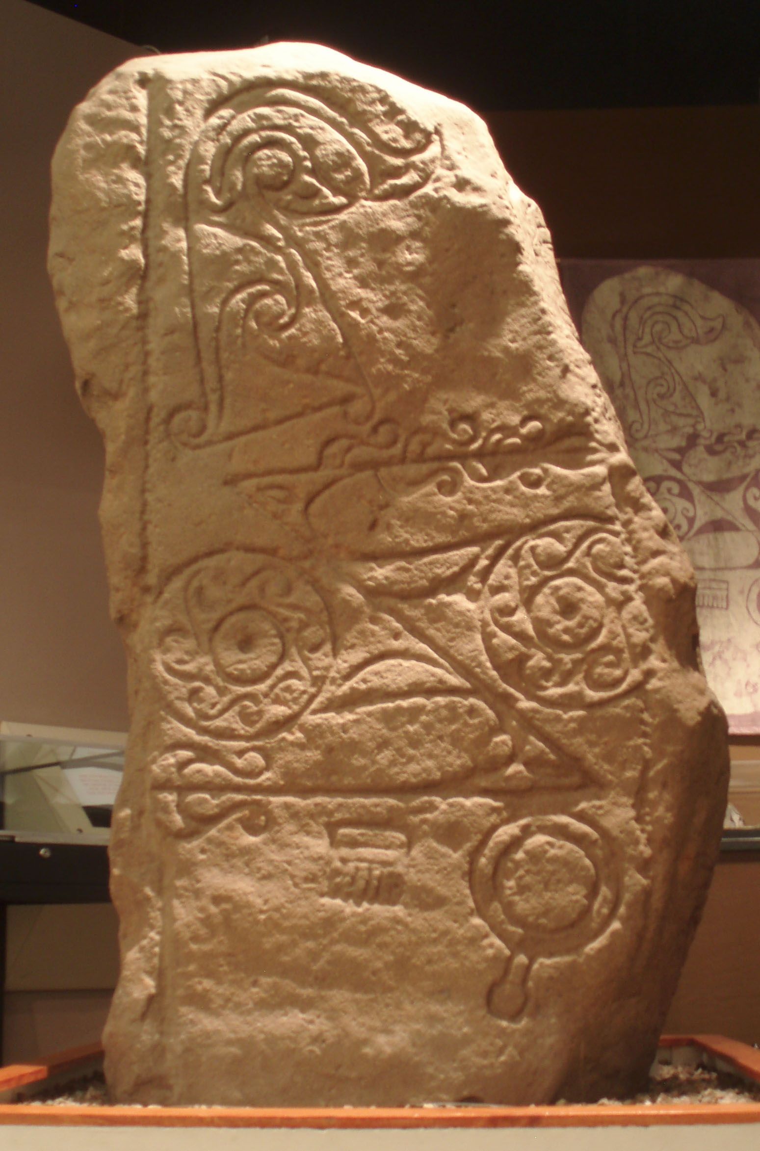 The Dunnichen Stone. Type I Pictish stone (incised symbols) found at Dunnichen, Angus, now on display at Meffan Institute, Forfar at the bottom : comb and mirror